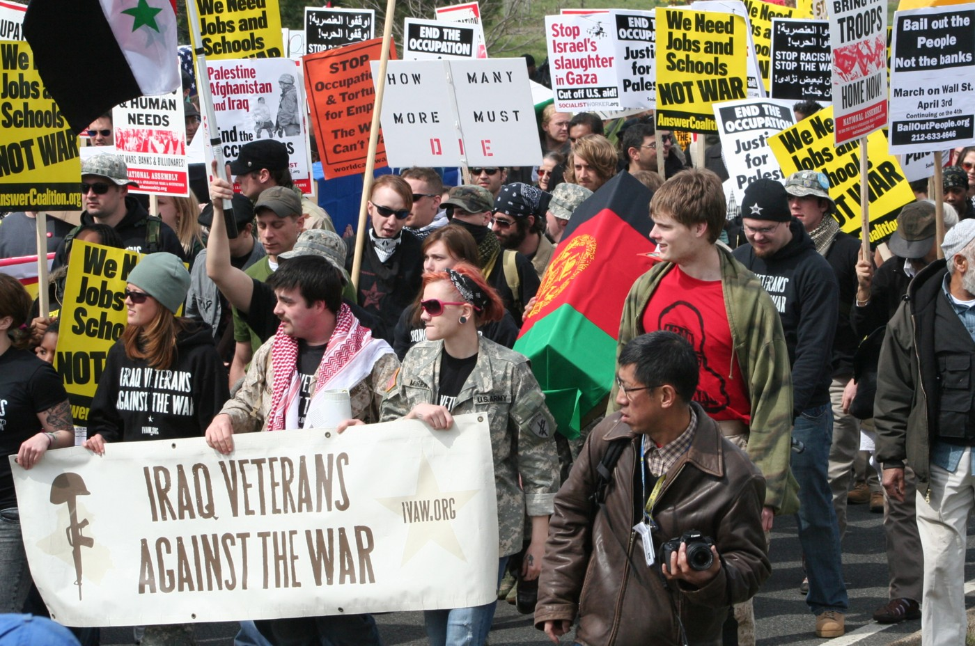 Protesters march from Washington D.C. toward the Pentagon in Arlington, Virginia on March 21, 2009. Photograph by Vic Reinhart, and uploaded to Wikipedia by Vic Reinhart (screename Astuteoak). The following notice was sent to I hereby assert that I am the creator and/or sole owner of the exclusive copyright of WORK I agree to publish that work under the Creative Commons Attribution-ShareAlike 3.0 License. I acknowledge that I grant anyone the right to use the work in a commercial product and to modify it according to their needs, provided that they abide by the terms of the license and any other applicable laws. I am aware that I always retain copyright of my work, and retain the right to be attributed in accordance with the license chosen. Modifications others make to the work will not be attributed to me. I acknowledge that I cannot withdraw this agreement, and that the content may or may not be kept permanently on a Wikimedia project. Victor Reinhart Wikipedia screen-name: Astuteoak